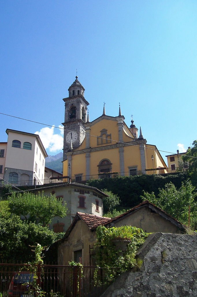 Pieve Edolo, Val Camonica